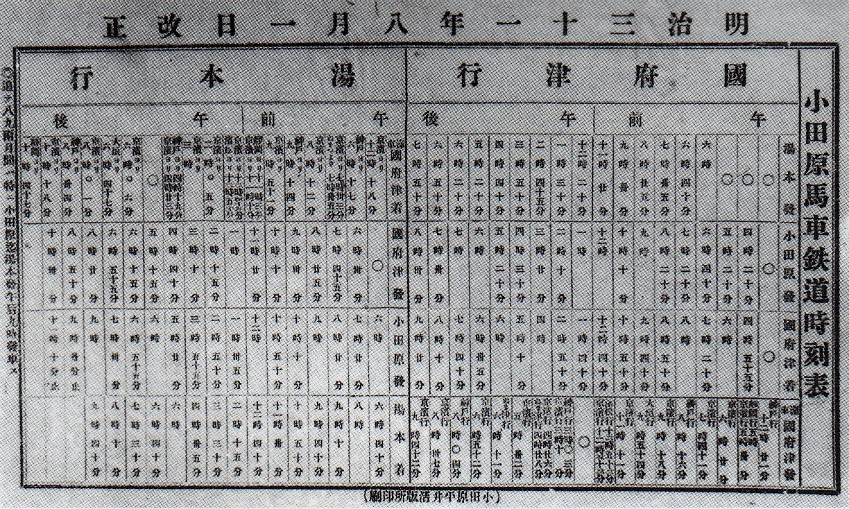 Timetable of Odawara wagon railway.